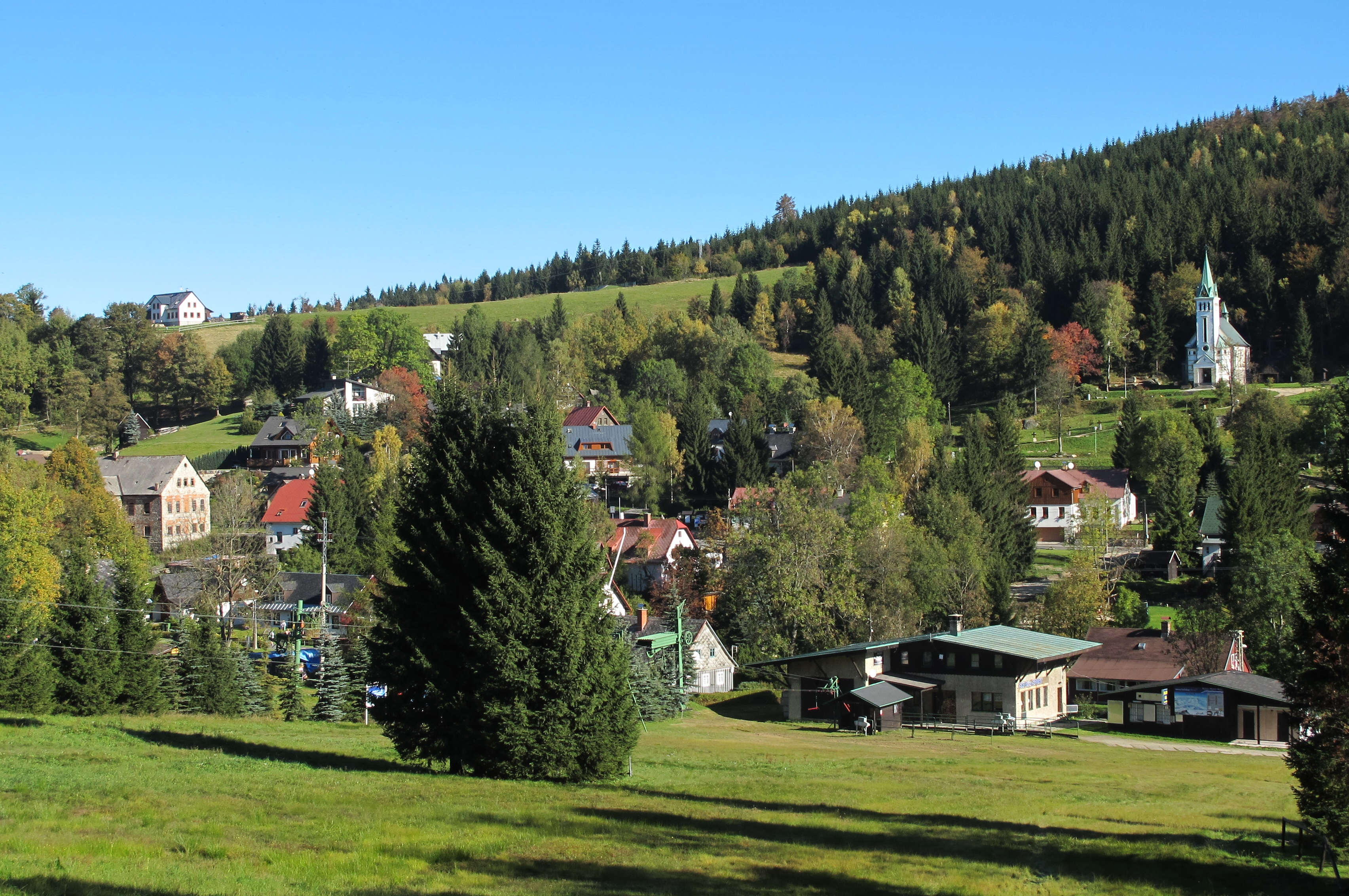 Bedřichov in Jablonec nad Nisou District, Jizera Mountains, Czech republic